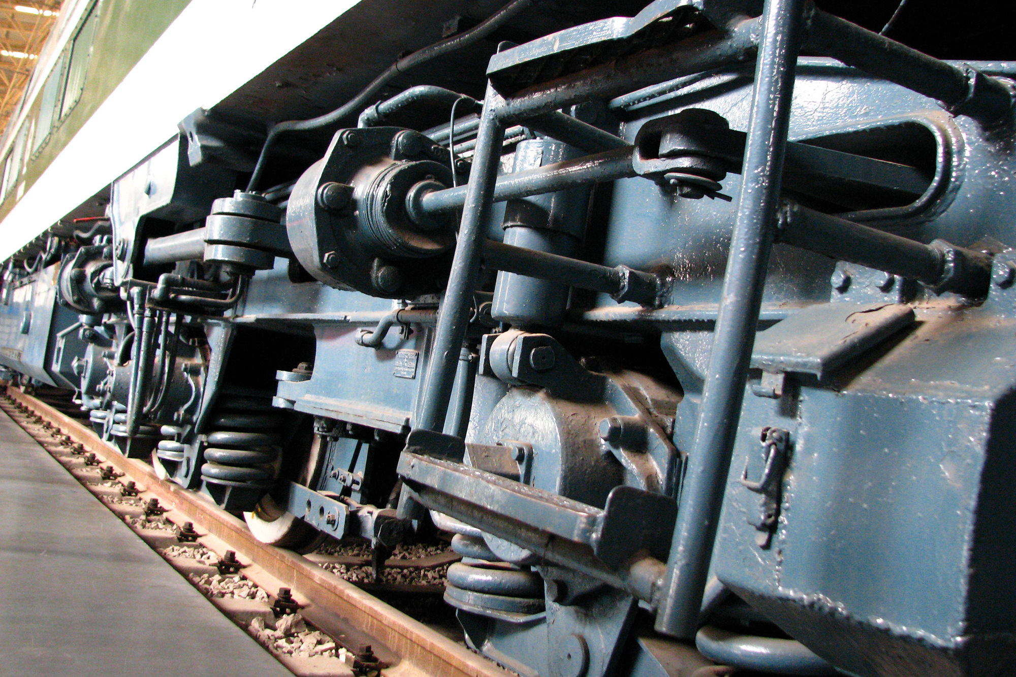 The bogie of China Railways NY5 0003 diesel-hydraulic locomotive.